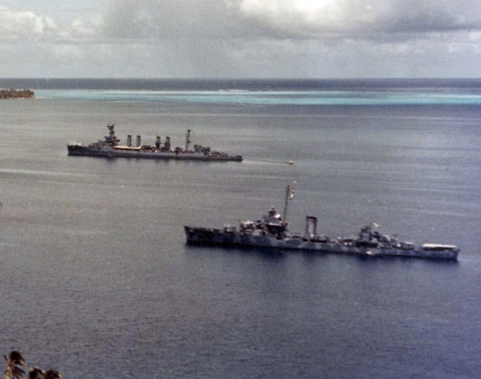 A U.S. Navy destroyer and a light cruiser in Teavanui Harbor, Bora Bora (Society Islands), in February 1942. The cruiser (with four smokestacks) is USS Trenton (CL-11), and the destroyer is USS Sampson (DD-394). Note their camouflage: Measure 12 on the cruiser and the mottled pattern of Measure 12 (Modified) on the destroyer.